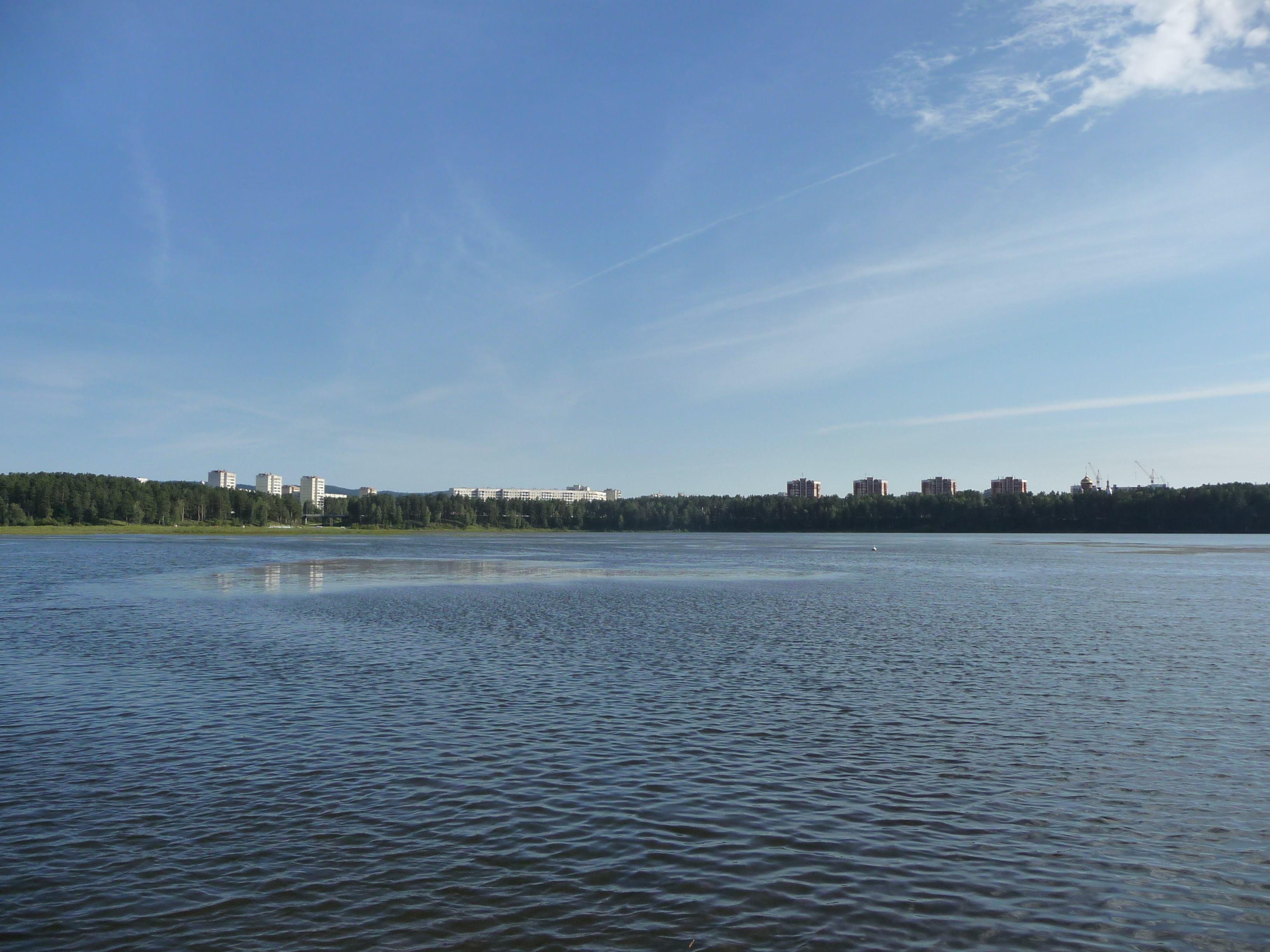 Zheleznogorsk from the other side of city lake